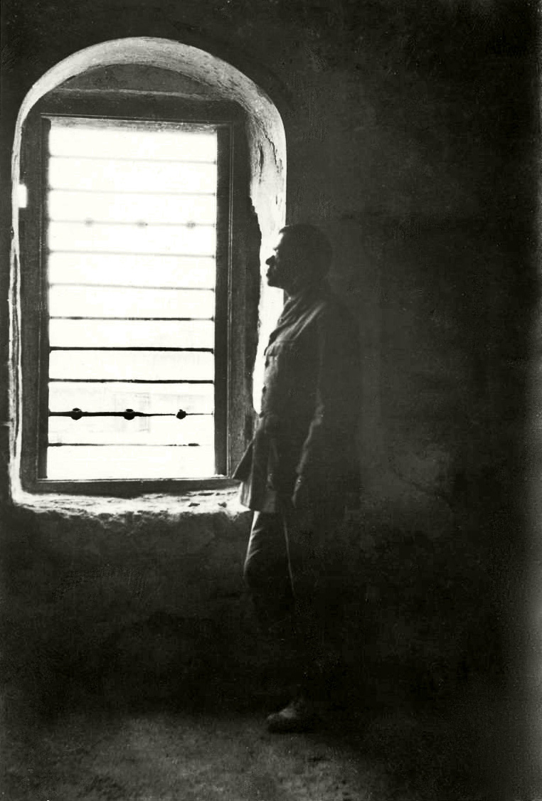 Photograph